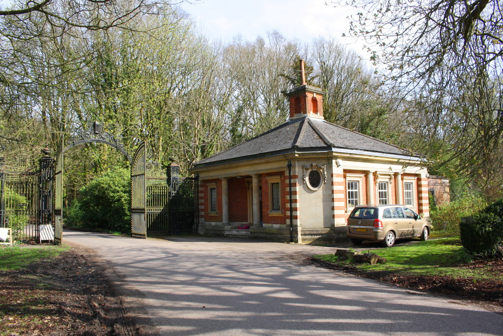 Lodge at entrance to Sue Ryder Hospice